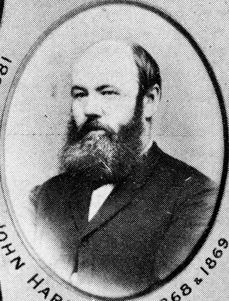 John Hardgrave, early resident and mayor of Brisbane, 1868-1869.